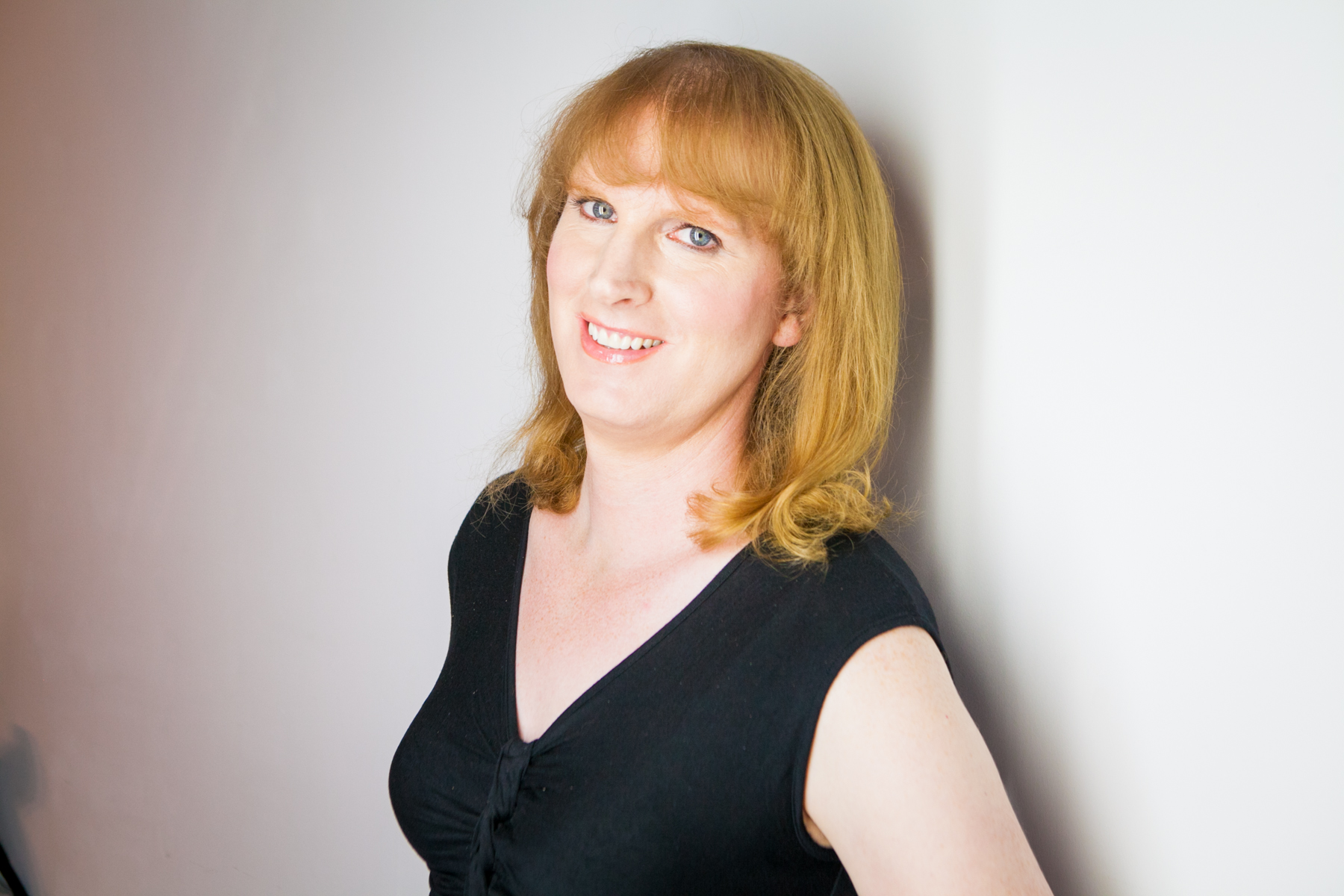 Transgender actress Savannah Burton